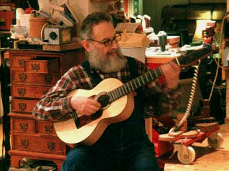 Luthier David Rubio in Cambridge ca. 1996